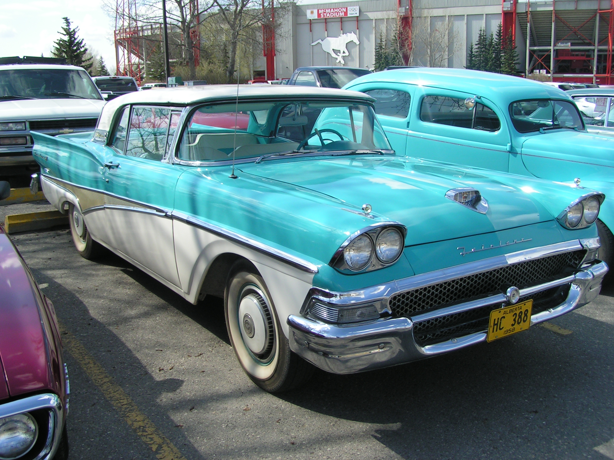 Ford Fairlane - note the painted 70s Ford hubcaps. In the parking lot.